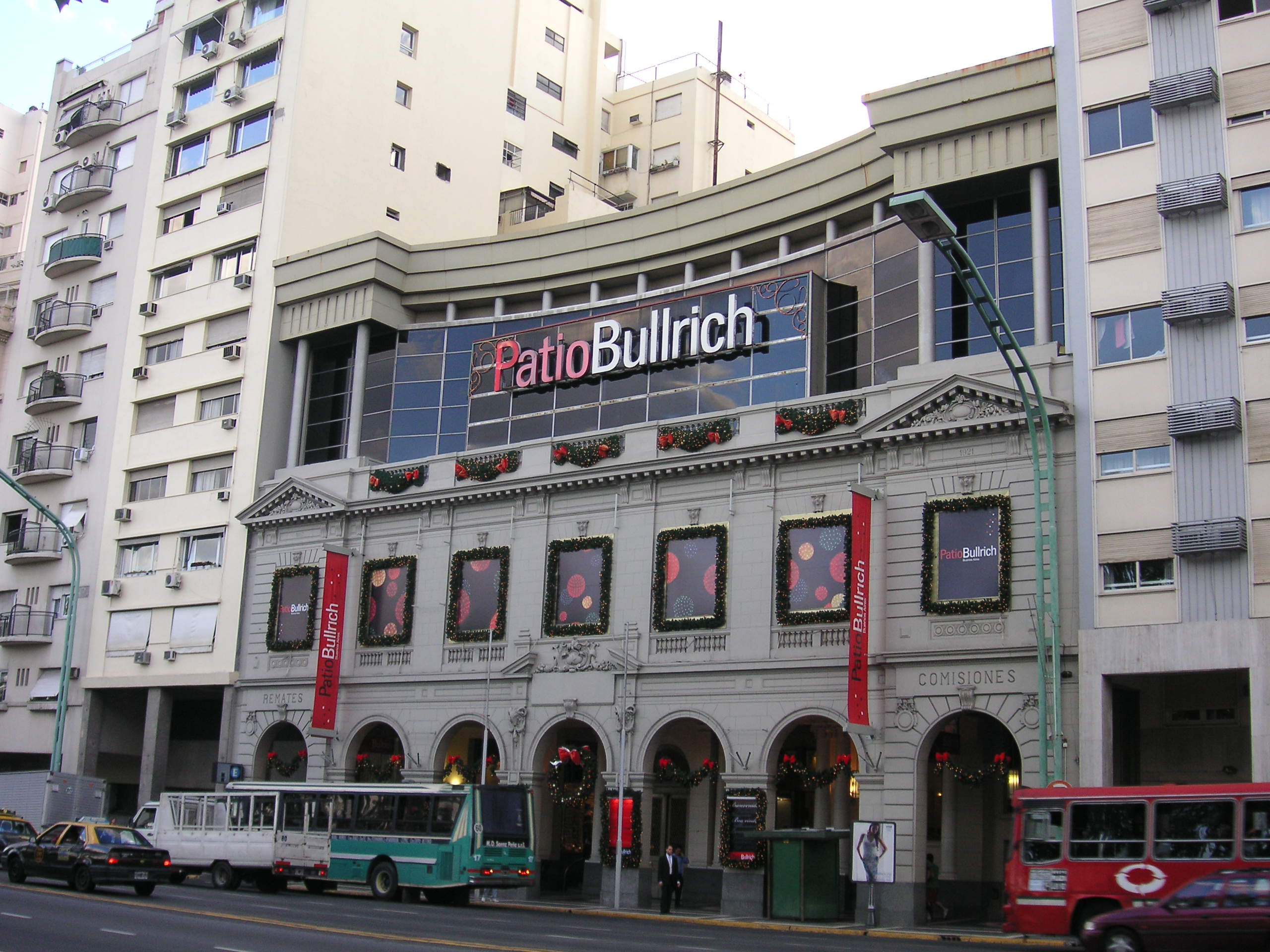 The Patio Bullrich Shopping Arcade, in the Recoleta section of Buenos Aires.